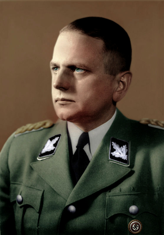 Otto Ohlendorf. Colored photograph.